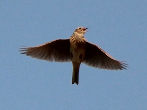 Alauda arvensis japonica (Eurasian Skylark), in flight in Japan.